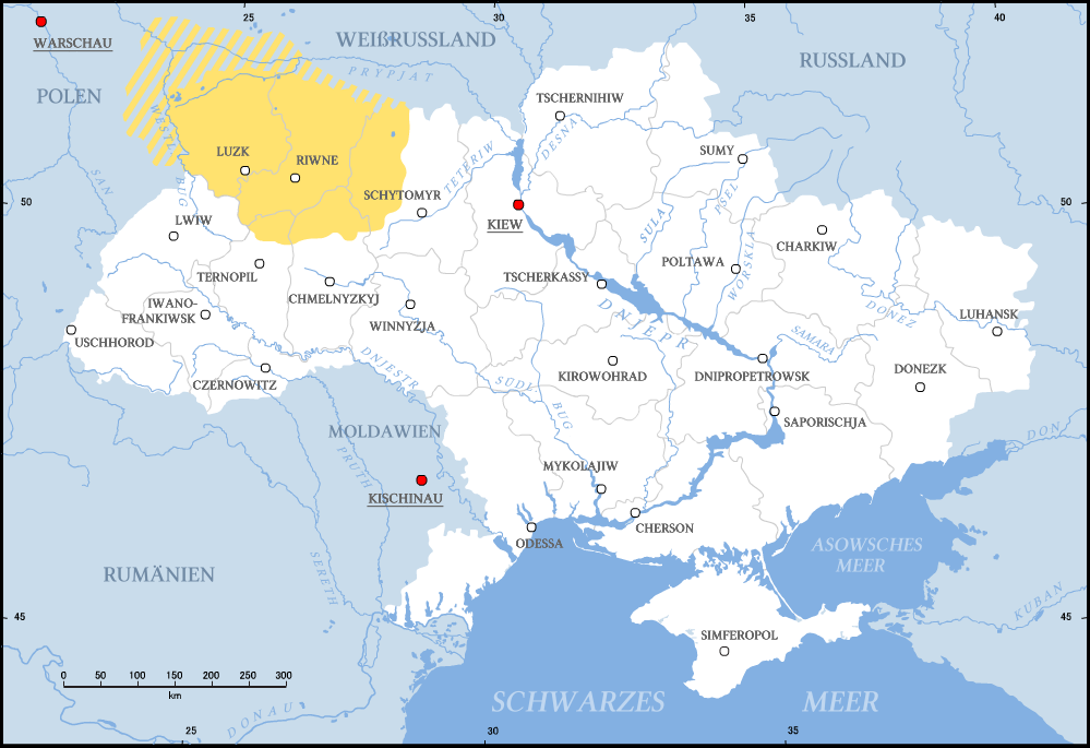 Volhynia (yellow)